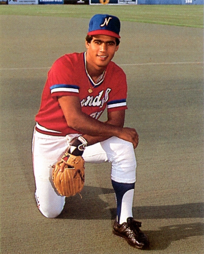 Centerfielder Stan Javier of the 1984 Nashville Sounds Minor League Baseball team of the Southern League